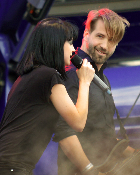 Leadsinger Ria and guitarist Benny Baumann.